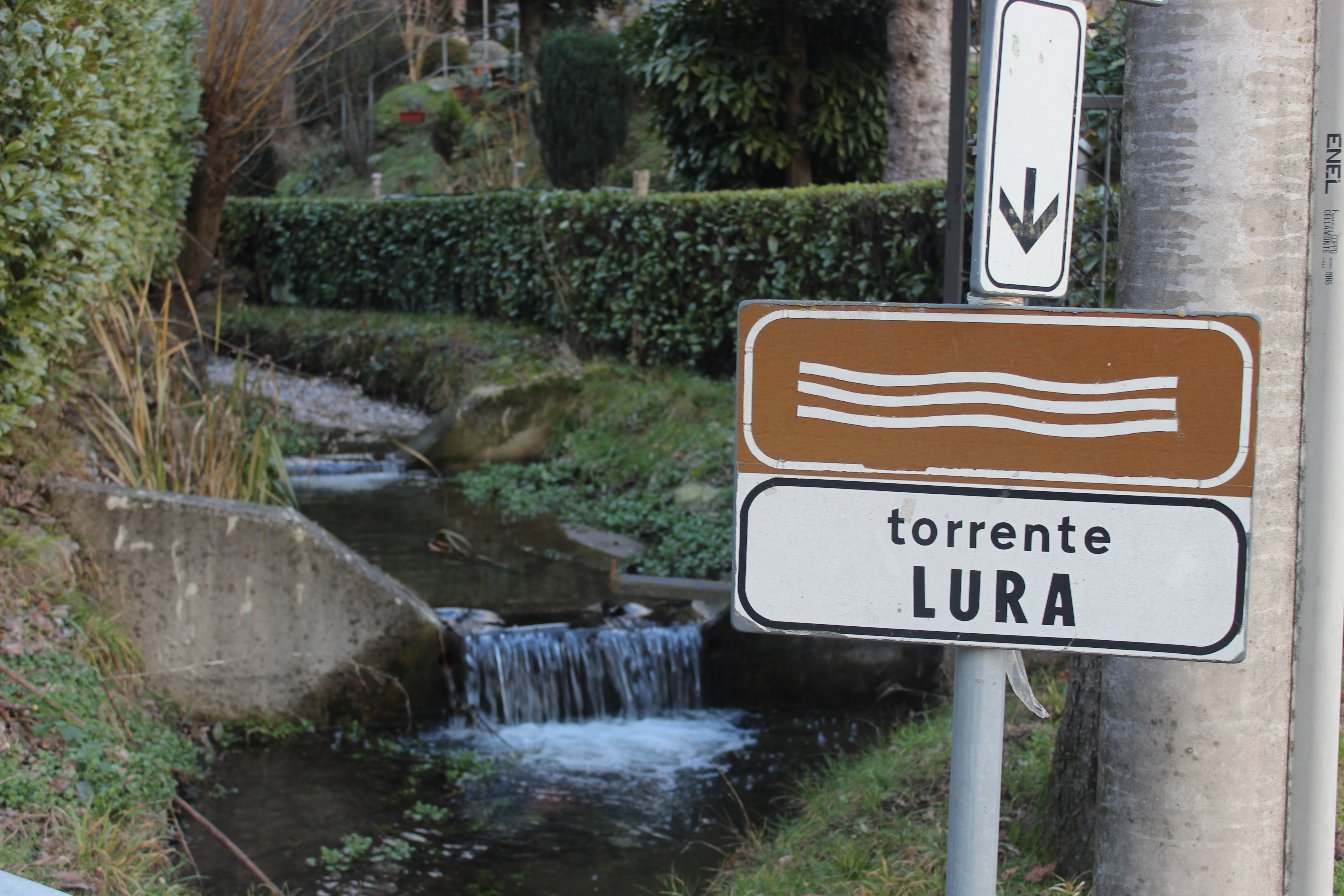 Lura in Uggiate Trevano